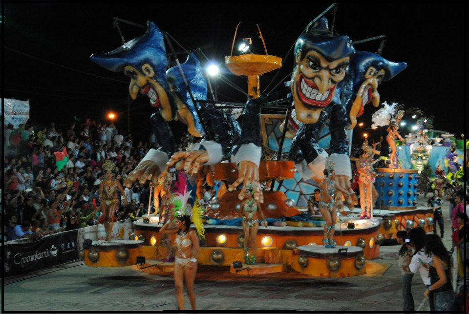 THIS IS A CARRO OF THE ORFEO IN THE CARNIVAL MONTE CASEROS